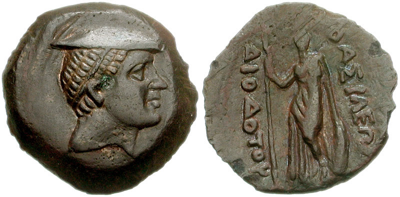 Diodotus II Kausia. Circa 235-225 BC. Æ Unit (17mm, 2.74 g). Head of Hermes right wearing petasos / Athena standing facing, holding spear and resting hand on shield.